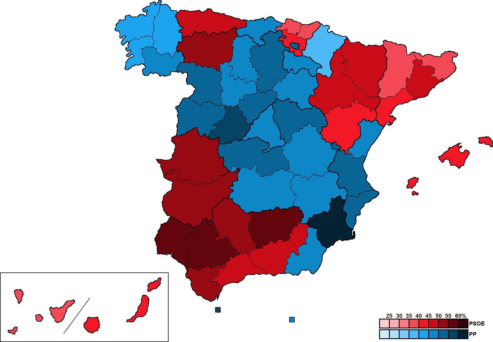 Provincial results for the 2008 Spanish general election.